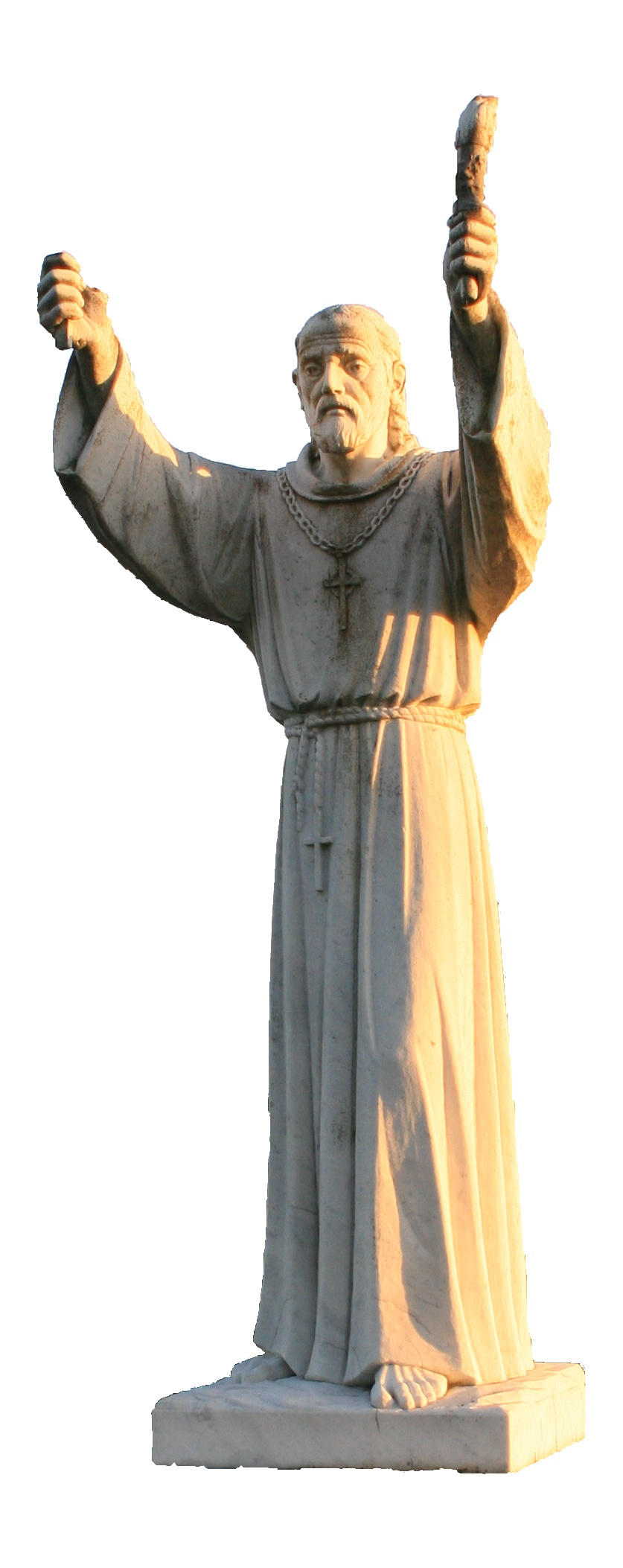 Clonard, County Meath, Ireland Statue of St. Finian, created by the Italian workshop Studi Nicoli, founded by the sculptor Carlo Nicoli. This image is a selection of the statue out of an original image using Gimp.